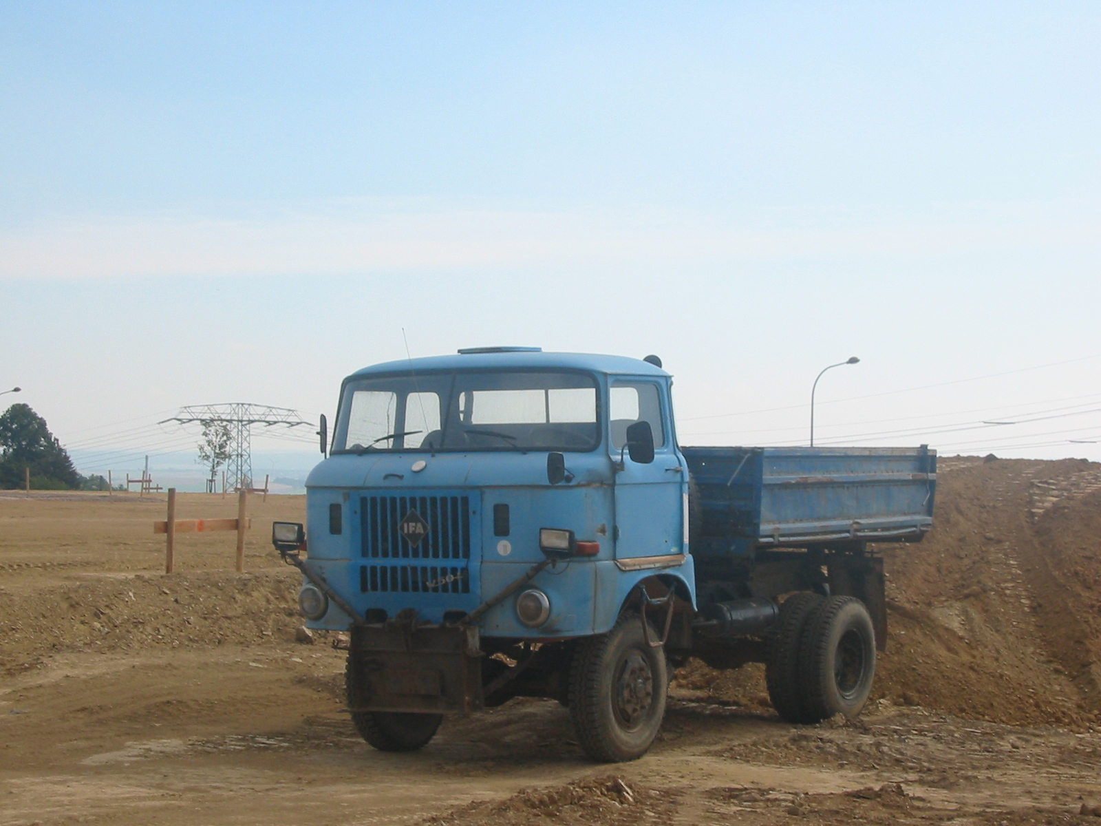 W50 LAZ with additional headlamps